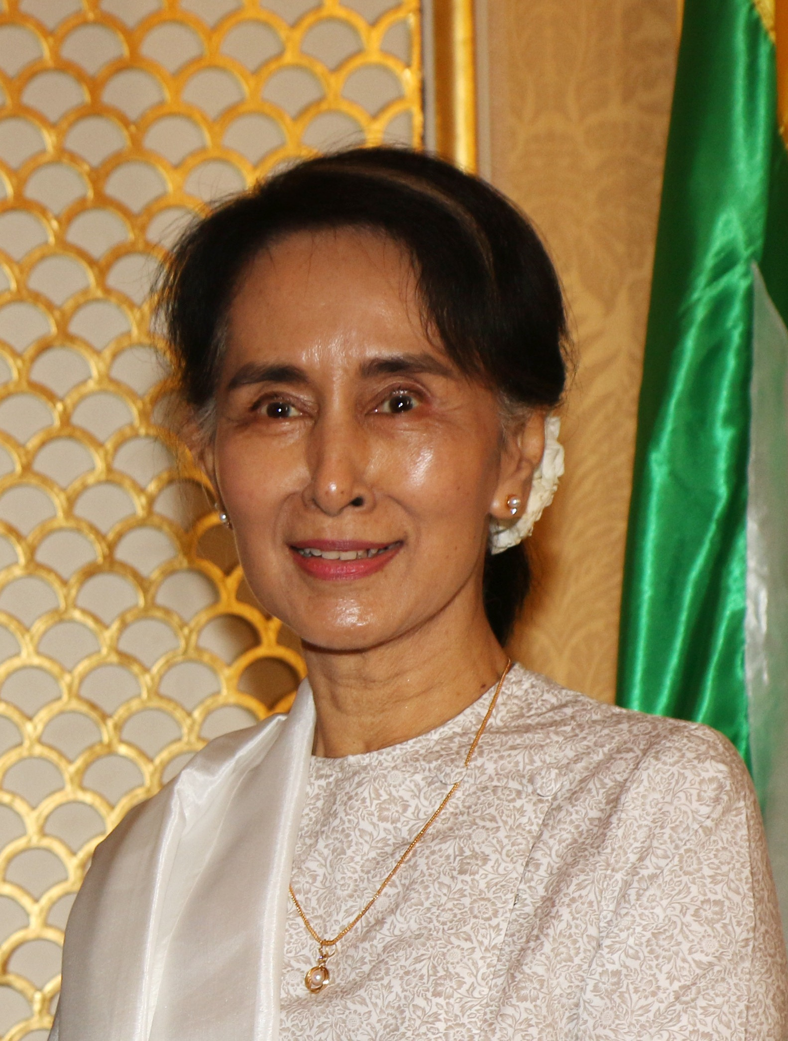 Aung San Suu Kyi in London, 12 September 2016.